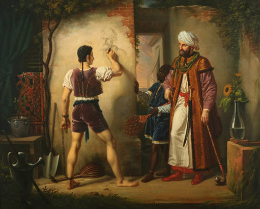 Bergeret takes the subject of this painting from Giorgio Vasari, artist hands-on of the 16th century who has primarily made a name as a biographer. In its fast (1550), a collection of biographies of artists, he described the capture of Filippo Lippi by the Moors. Lippi was able to obtain his release by a faithful portrait of his abductor to charcoal. The story relies on the common place that wants that Muslims are not accustomed to the figurative images. It is the realism of the portrait which impressed the Moor and led to grant amnesty to Lippi.